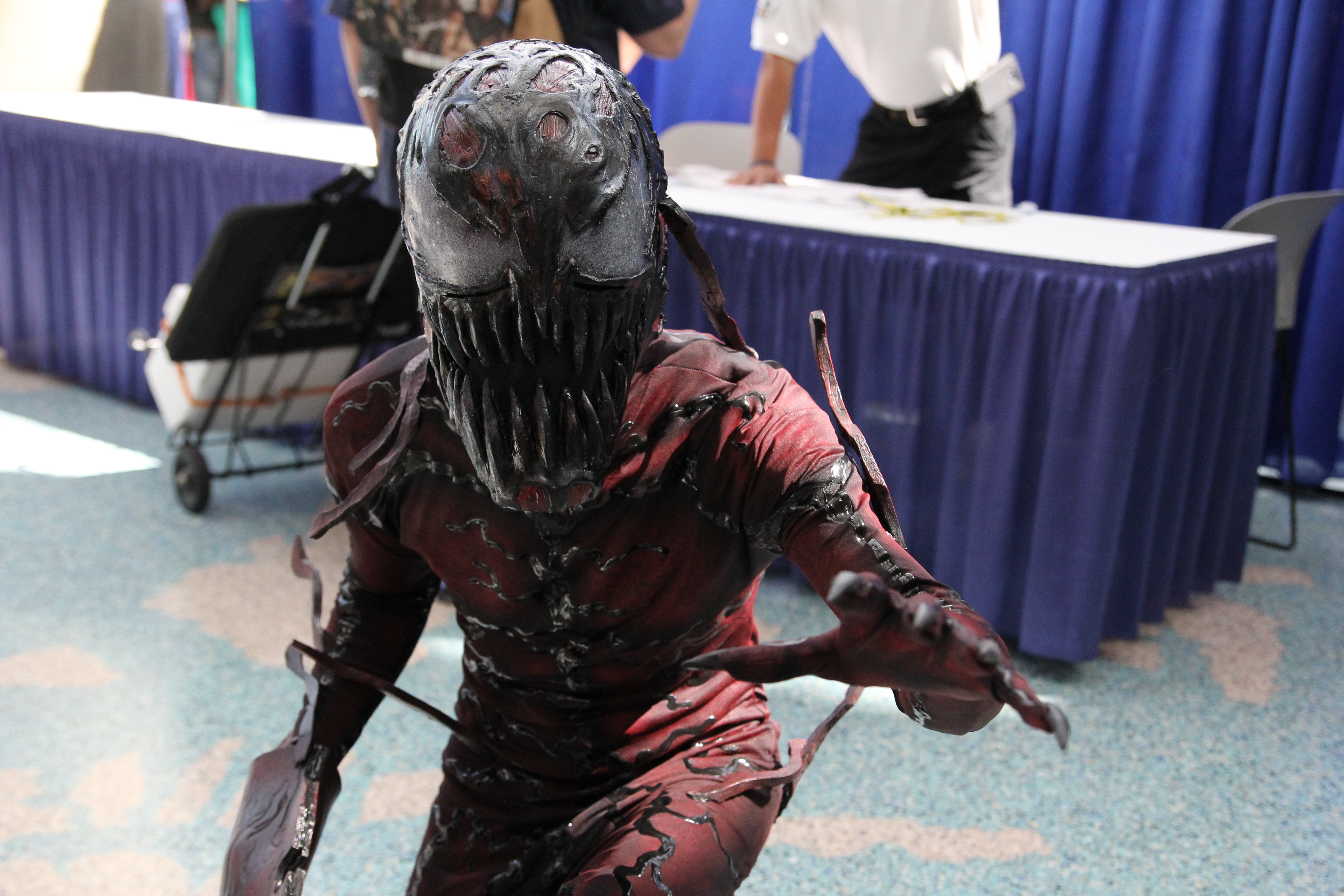 Cosplay of Carnage (from Marvel Comics) at WonderCon 2016.